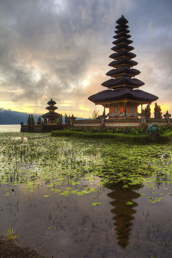 Hindu temple on Lake Bratan next to Bedugul